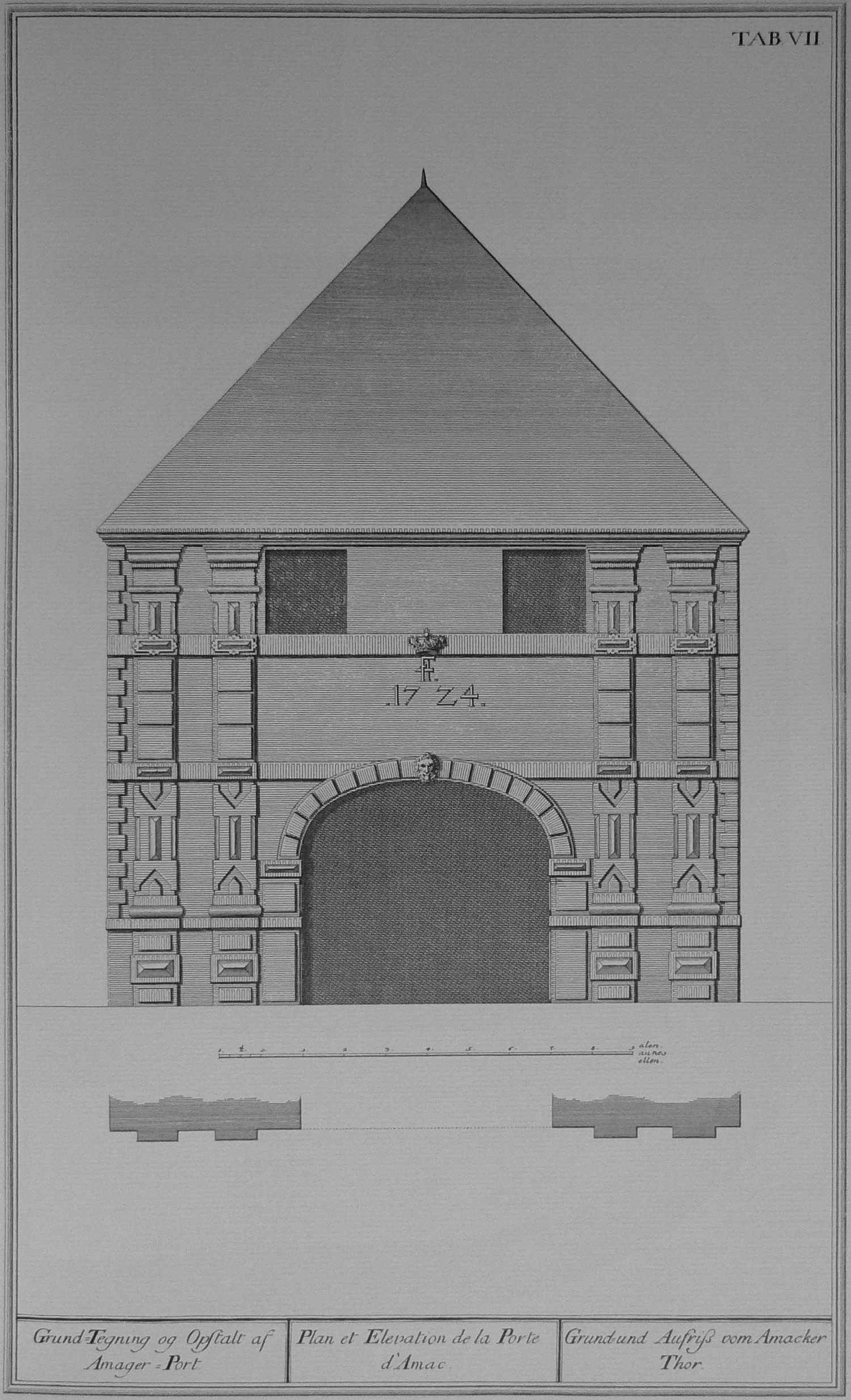 Plan and elevation of Amagerport, town gate of Copenhagen